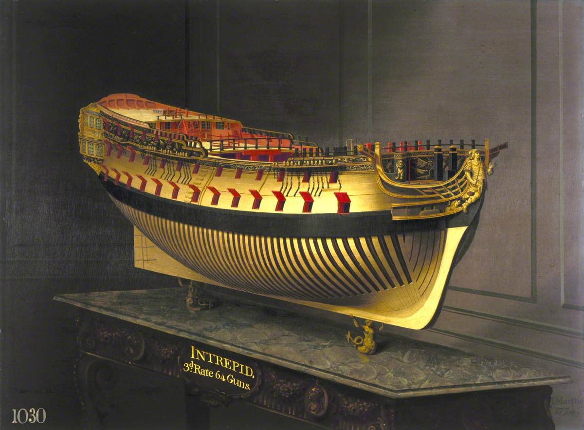 HMS Intrepid 3rd rate 64 guns bow 1774